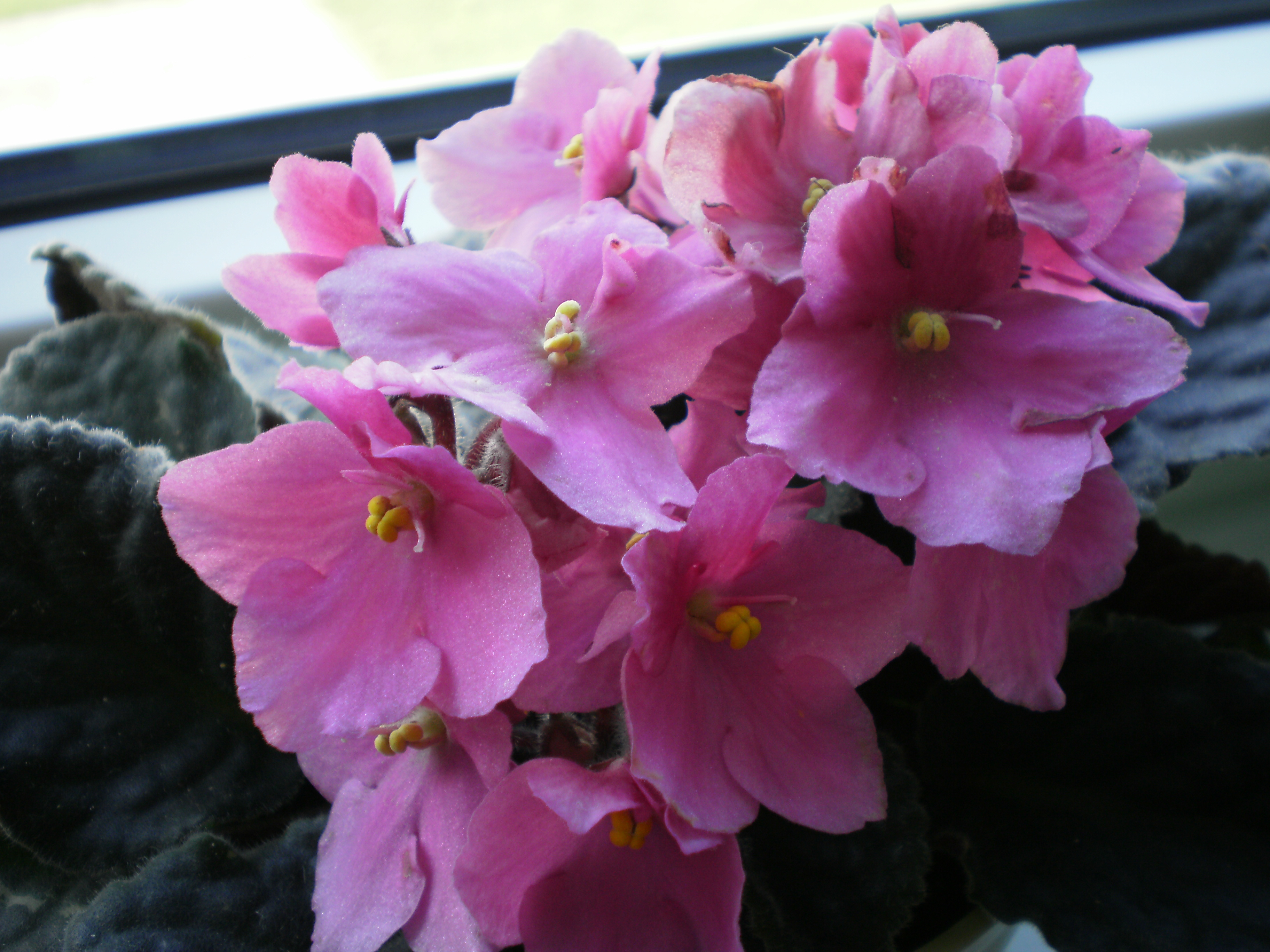 Saintpaulia ionantha